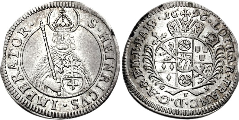 Germany, Bamberg (Bistum). Lothar Franz von Schönborn. 1693-1729. AR 4 Kreutzer or Batzen (2.20 g, 12h). Georg Friedrich Nurnberger, mintmaster. Dated 1696. Coat of arms within wreath; GFN below Nimbate and crowned facing bust of Heinrich II, holding scepter and globus cruciger inscribed with number 4. Heller 282; Schön 2; KM 85.